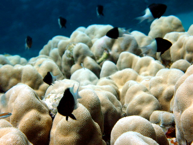 Port Ghalib Egypt